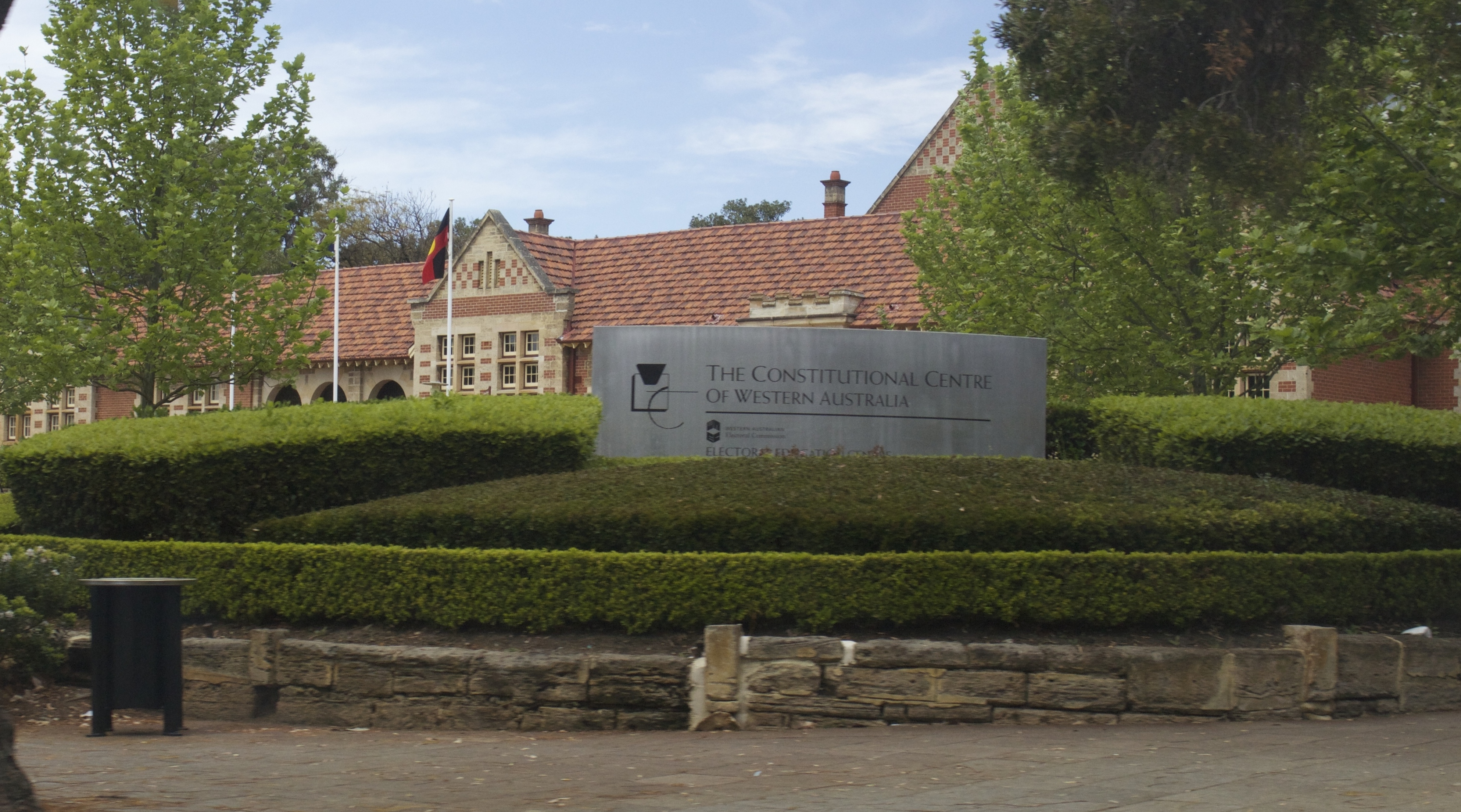 The Constitutional Centre of Western Australia. West Perth Western Australia, Australia. It was historically known as Hale House in West Perth and has been refurbished as part of a $25.5 million project to permanently house the State Cabinet meeting room, the Cabinet Secretariat and the Office of the Premier.